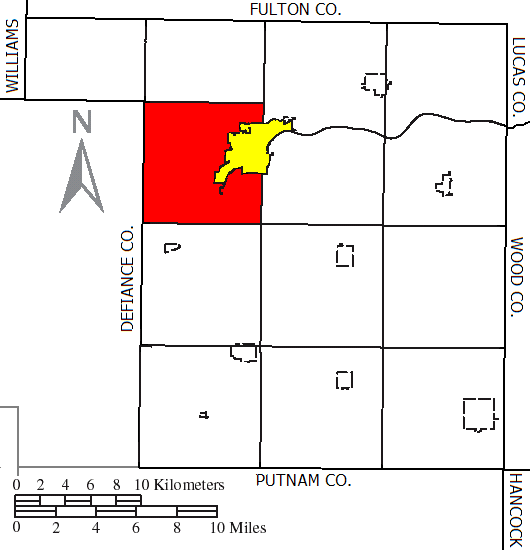 Made by the US Census and modified by myself